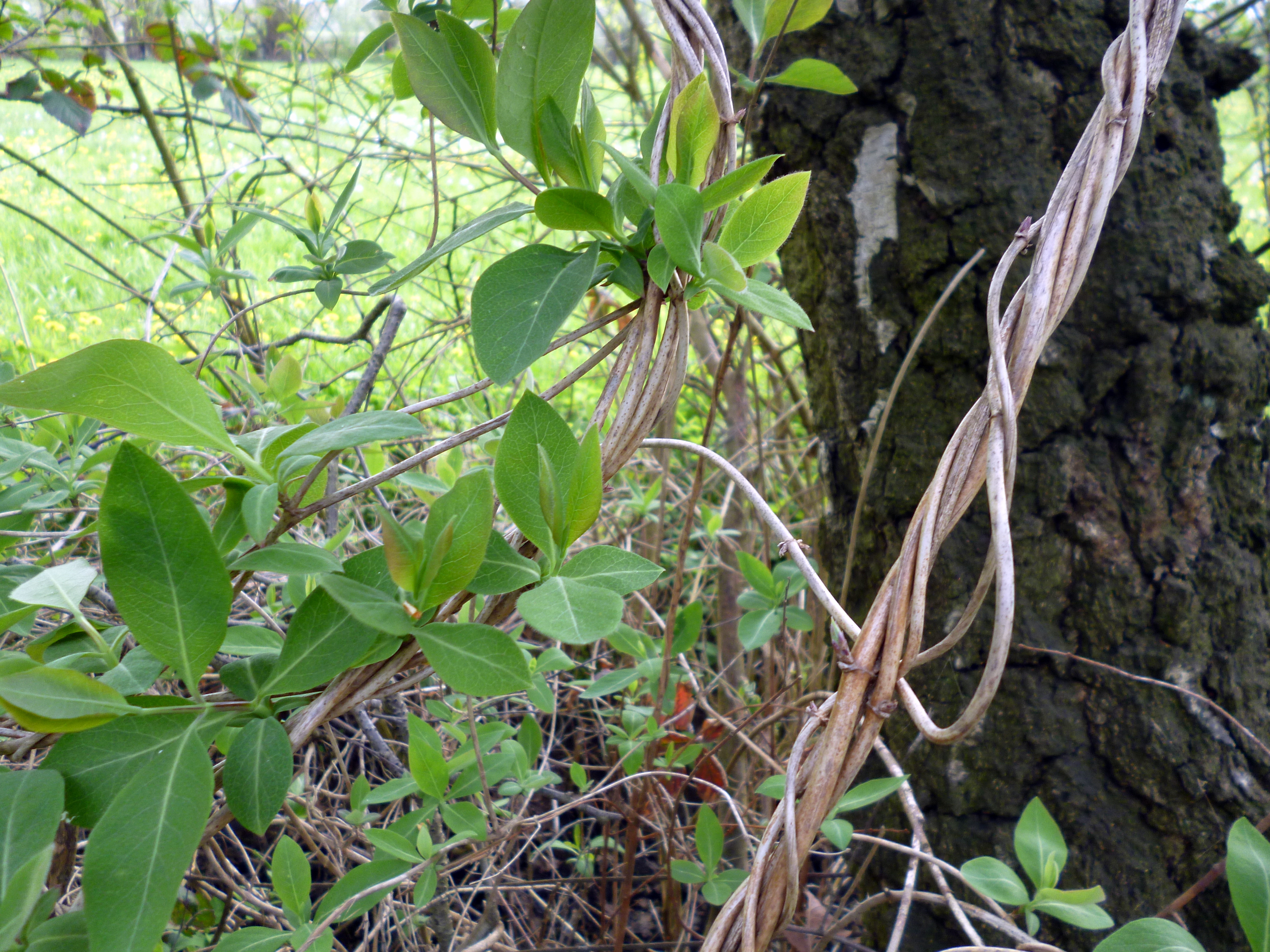 Liana of Lonicera periclymenum